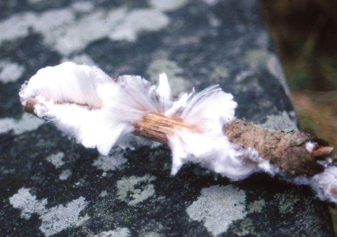 Angel hair ice